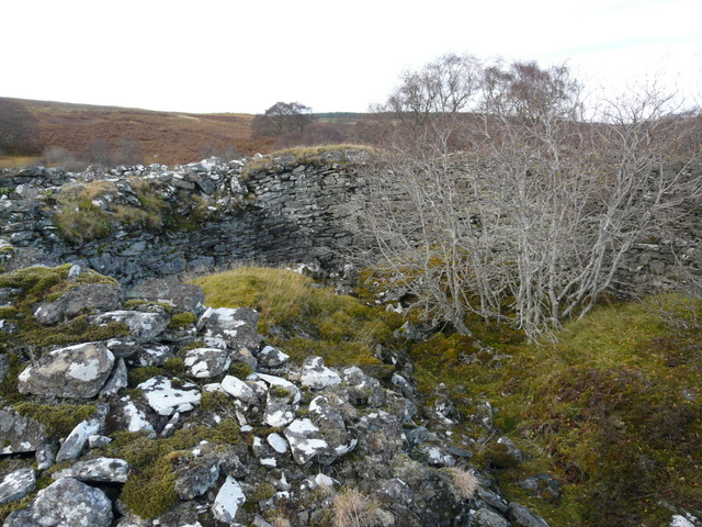 Sallachy Broch, Loch Shin